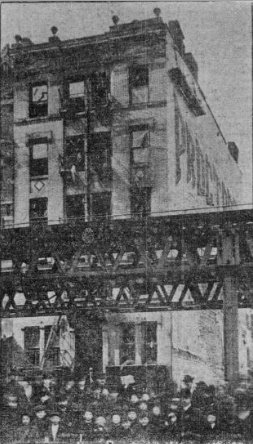 Photograph of 105 Allen Street, New York City, on the day of a fire that claimed 19 lives, March 14, 1905; appeared on the front page of the New York Tribune, March 15, 1905